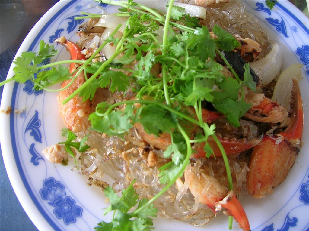 Fried Vermicelli with crab and prawn, at 140 Le Thanh Ton St - yum yum. The soup version is even yummier.